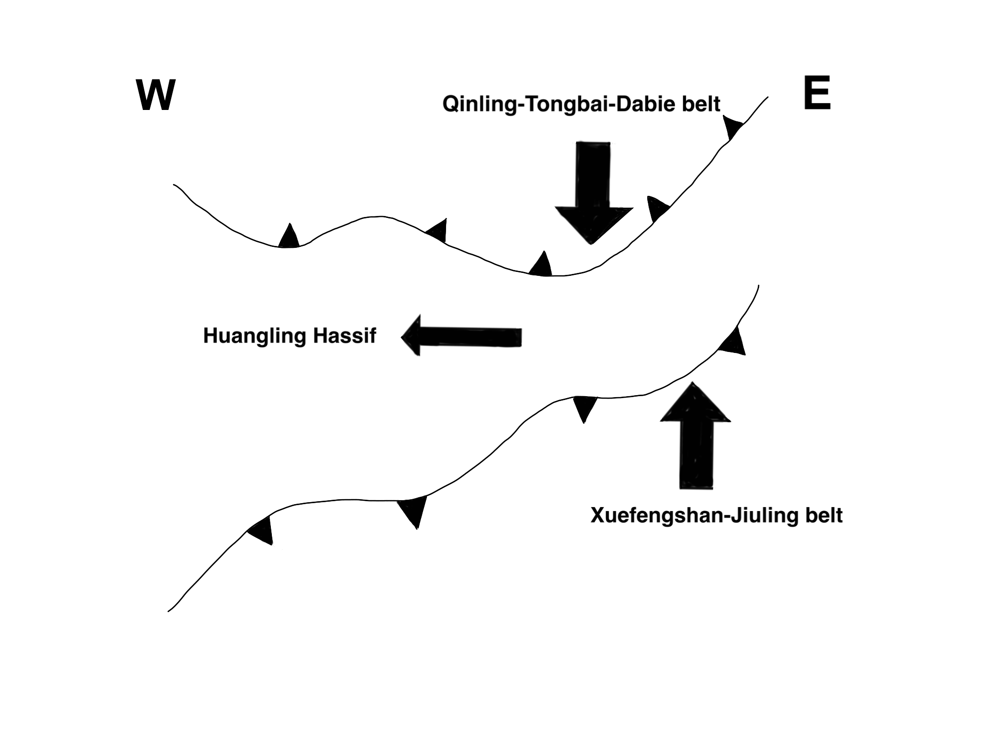 Convergence of Qinling-Tonbai-Dabie belt from the north and Xuefengshan-Jiuling belt from the south squeezed Huangling massif to escape to the west. The slip ratio is faster than 1, so the western flank is steeper than the eastern flank.